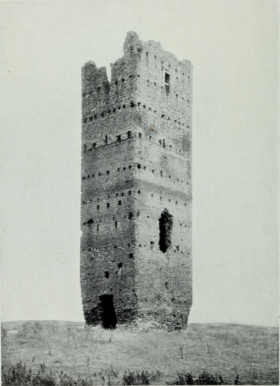 Identifier: collezionedimono48berg Title: Collezione di monografie illustrate Year: 1905 (1900s) Authors: Subjects: Publisher: Bergamo, Istituto Italiano d'Arti Grafiche Text Appearing Before Image: UJk** \ :t % ? ì •i. .* * **j Text Appearing After Image: TORRE DELLE CORNACCHIE. (Fot. I. I. dArti Grafiche). Mai mi parve che la miseria avesse con atto più significativo dimostrato quantoancora noi siamo rimasti fedeli allegoistico canone deìV/iomo homini lupus e quantocammino noi dobbiamo ancor fare prima di raggiungere unera che possa chiamarsicivile senza suscitare, ogni volta che questo aggettivo vien pronunciato, il sorriso•o la bestemmia.